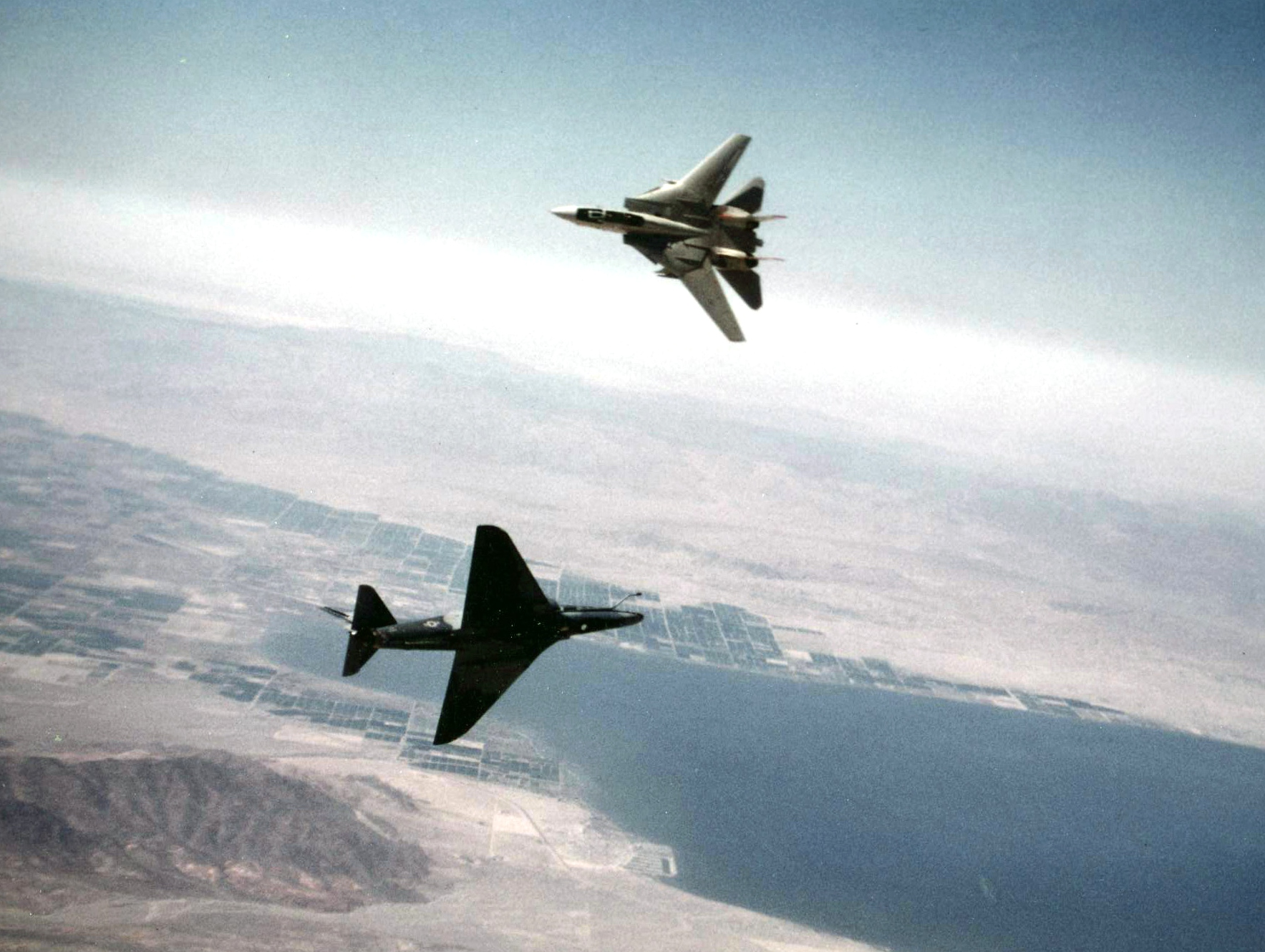 A U.S. Navy Douglas A-4F Skyhawk of Fighter Squadron VF-126 "Bandits" engages a Grumman F-14A Tomcat of VF-111 "Sundowners" in air combat maneuvering over the Salton Sea, in 1982.